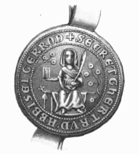 Seal of the Abbess of Gernrode - Gertrud III. von Everstein